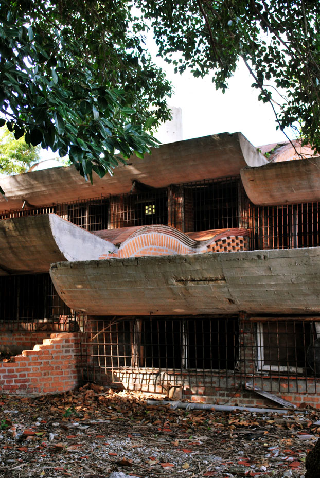 School of Music near the Jaguey Tree, uphill from the stream